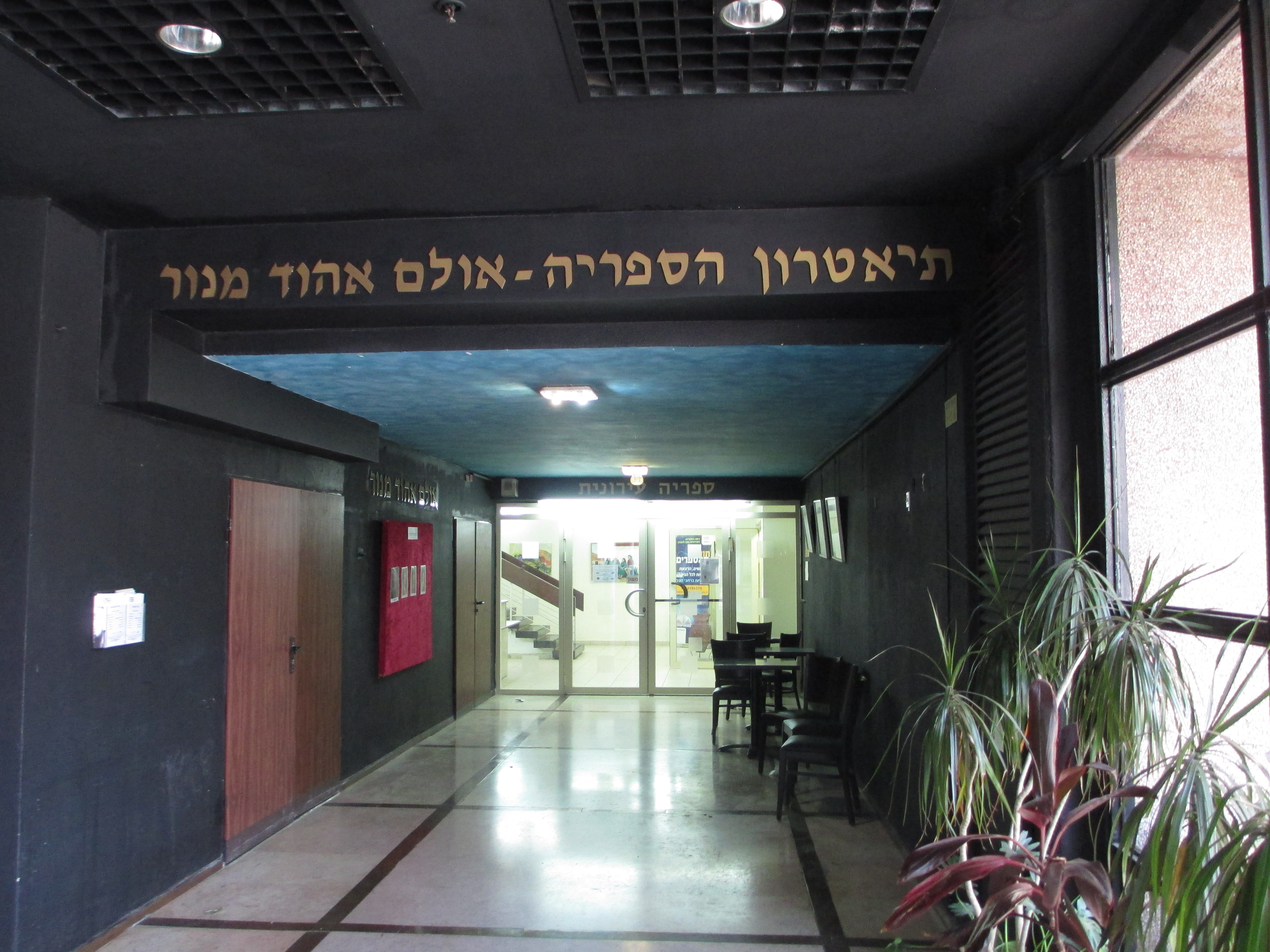 sifriya theater in ramat gan תיאטרון הספריה ברמת גן